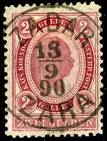 Austrian KK 2 gulden stamp, bilingual cancelled ZADAR - ZARA in 1890 (Croatia)